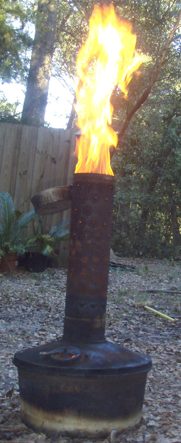 This is a picture of my smudge pot. It was once used to keep orange groves from freezing and burns diesel fuel.